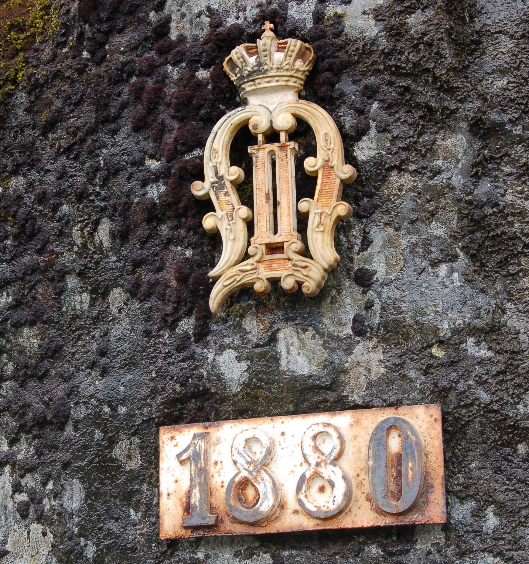 The road between Kongsberg and Svene - King Oscar II